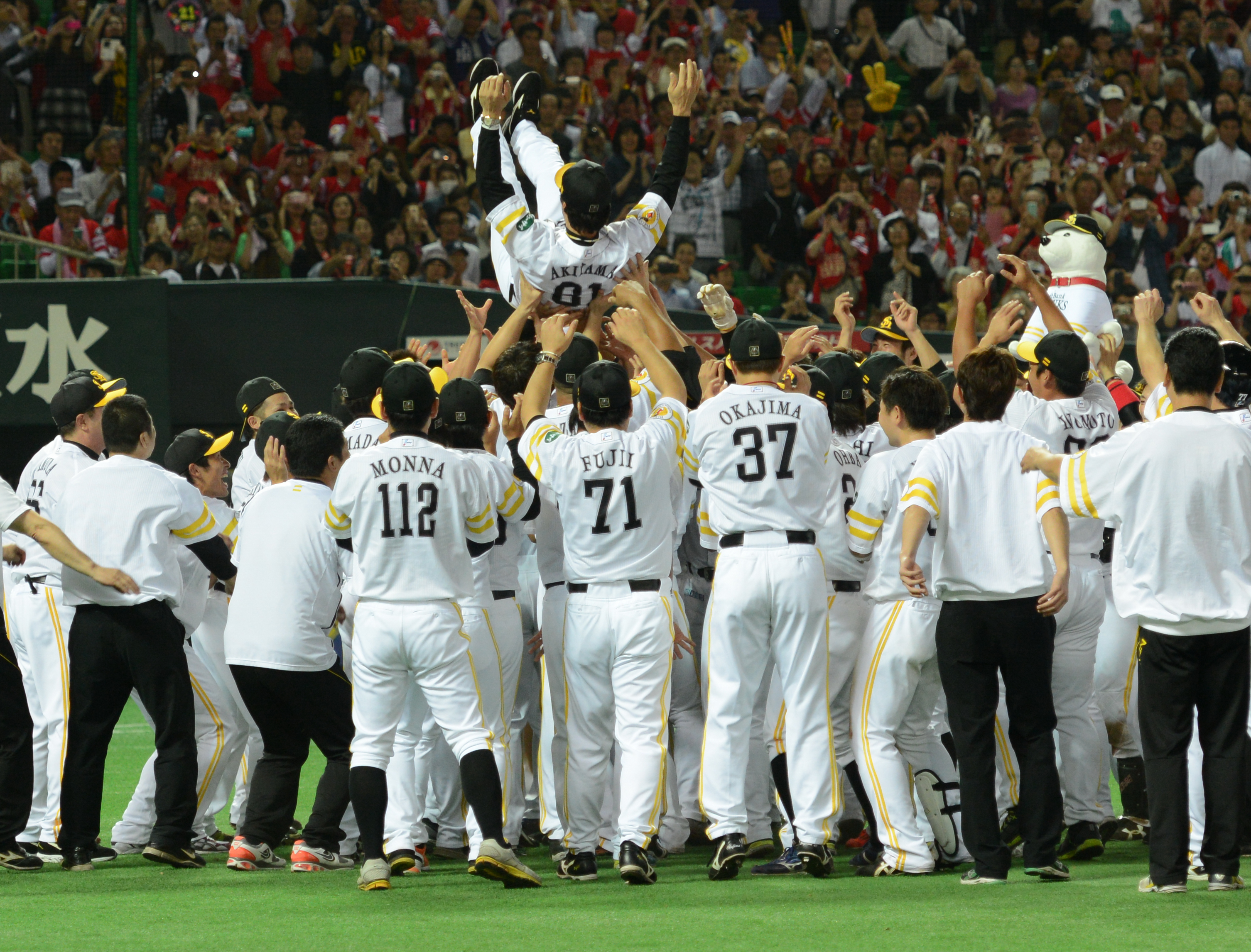 Koji Akiyama is hoisted in the air after Fukuoka SoftBank Hawks won the 2014 Pacific League season, at Fukuoka Dome.